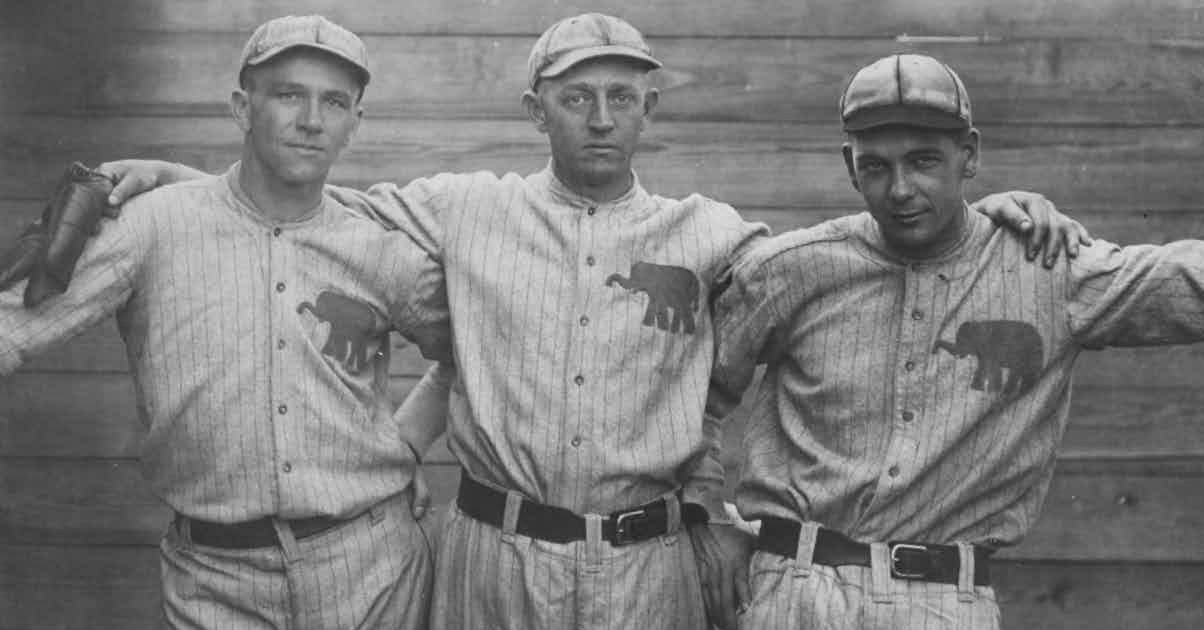 Philadelphia Athletics teammates Johnny Walker (left), Tillie Walker (center) and Frank Walker (right) in 1920. Despite having the same last names the players were not related.